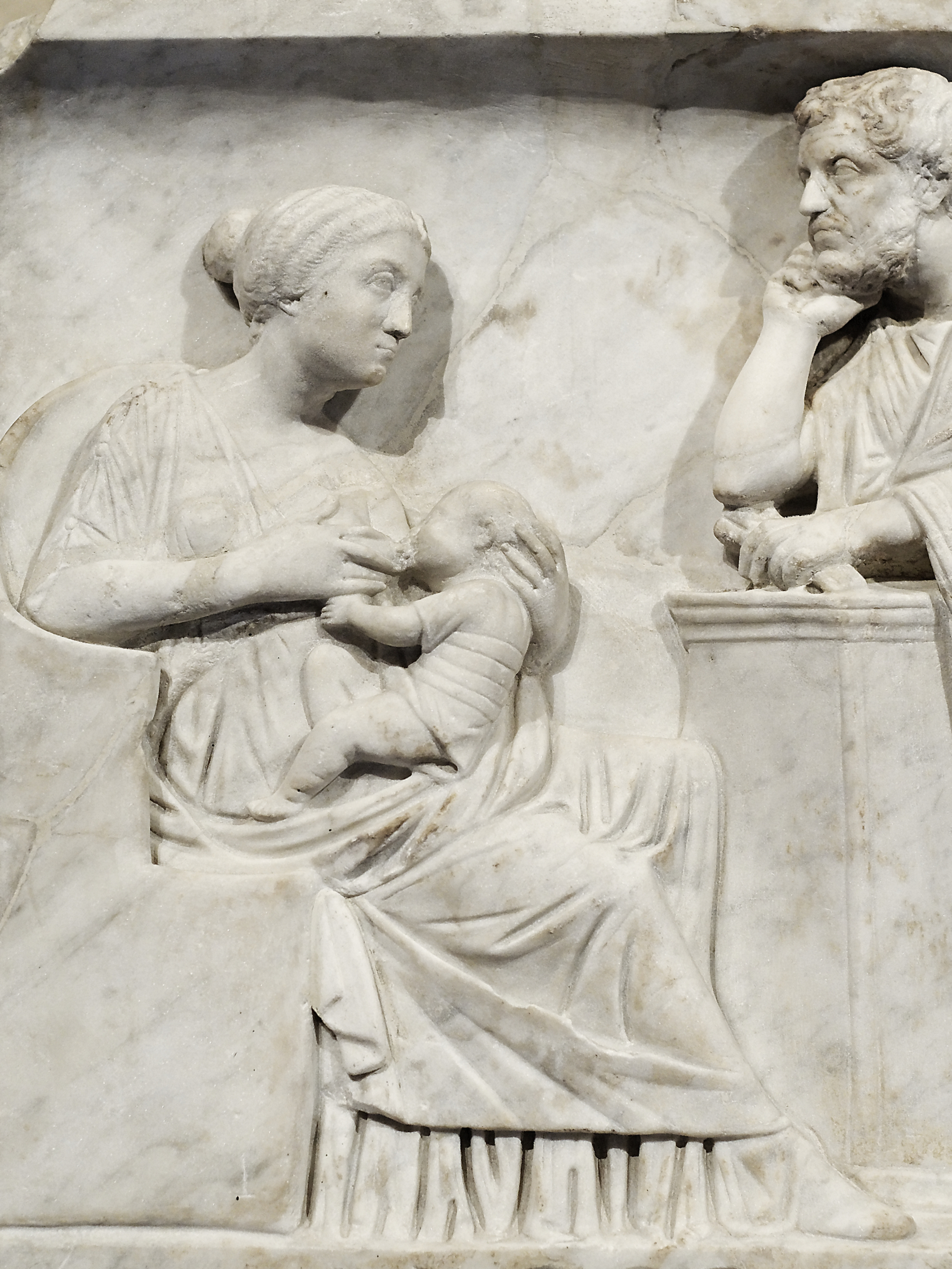 Mother breastfeeding a baby in the presence of the father. Detail from the sarcophagus of Marcus Cornelius Statius, who died as a young child.